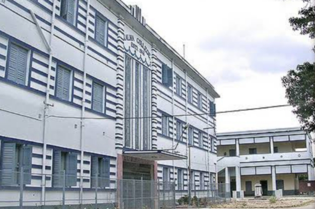 Kalna College Campus